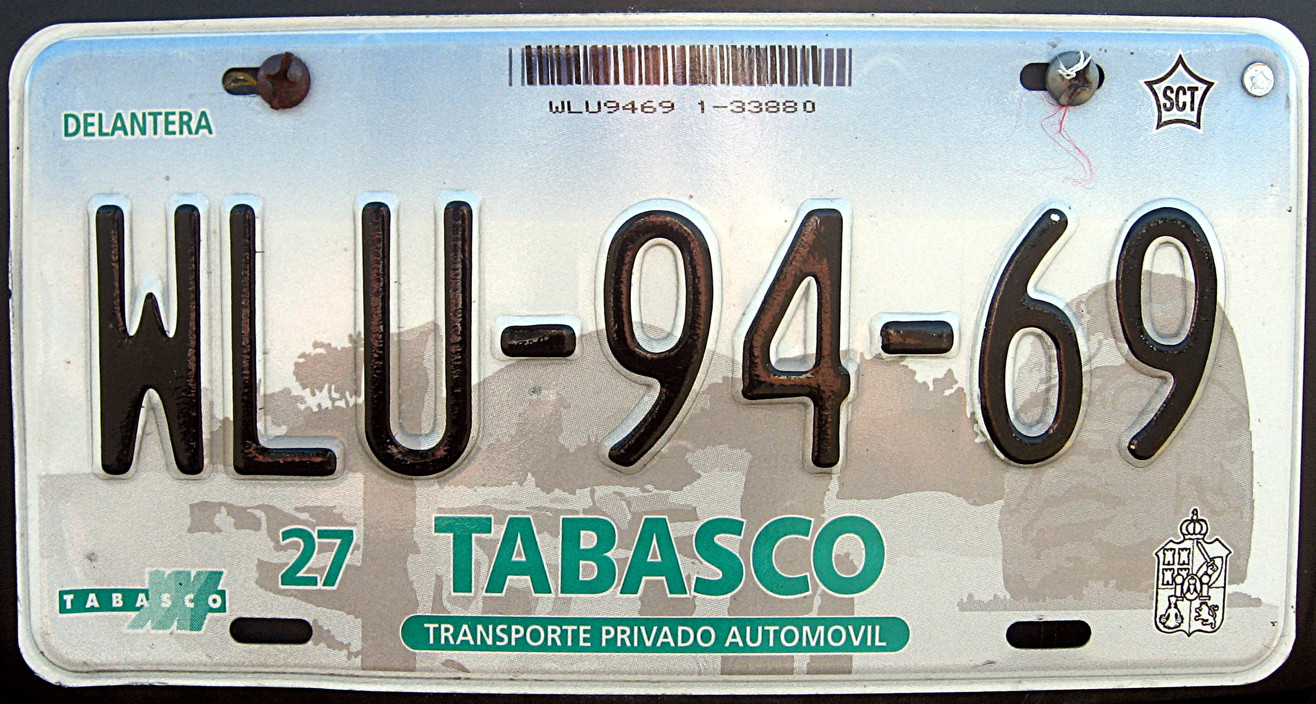 License plate of Tabasco